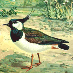 Cropped version of Image:Vanellus vanellus naumann.jpg